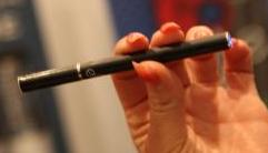 A female model demonstrating use of an electronic cigarette. Wikipedia: An electronic cigarette, or e-cigarette, is an electrical device that simulates the act of tobacco smoking by producing an inhaled vapor bearing the physical sensation, appearance, and often the flavor and nicotine content of inhaled tobacco smoke, without its odor or, ostensibly, its health risks. Photo by Michael Dorausch This photo is licensed under a Creative Commons license. If you use this photo within the terms of the license or make special arrangements to use the photo, please list the photo credit as "Michael Dorausch" and link the credit to .